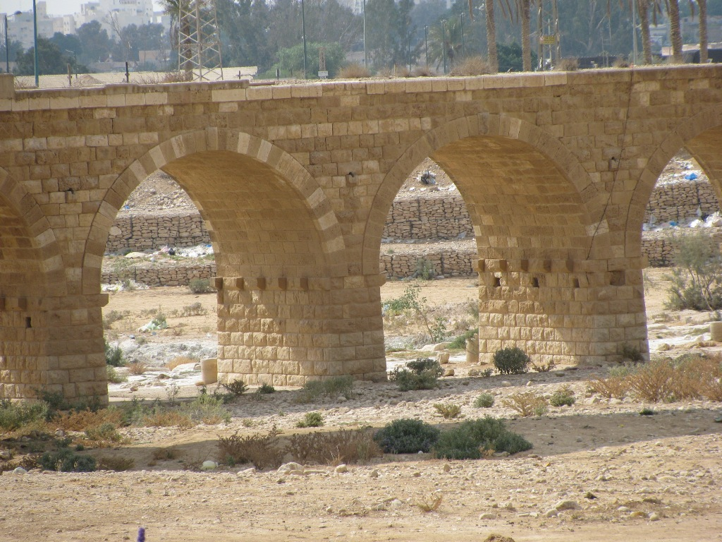 Old railway bridge near the Nahal Be\'er Sheva closely